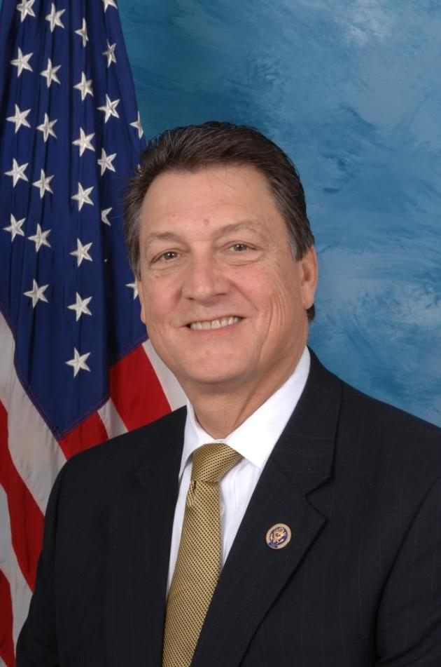 Lynn Westmoreland, member of the United States House of Representatives.